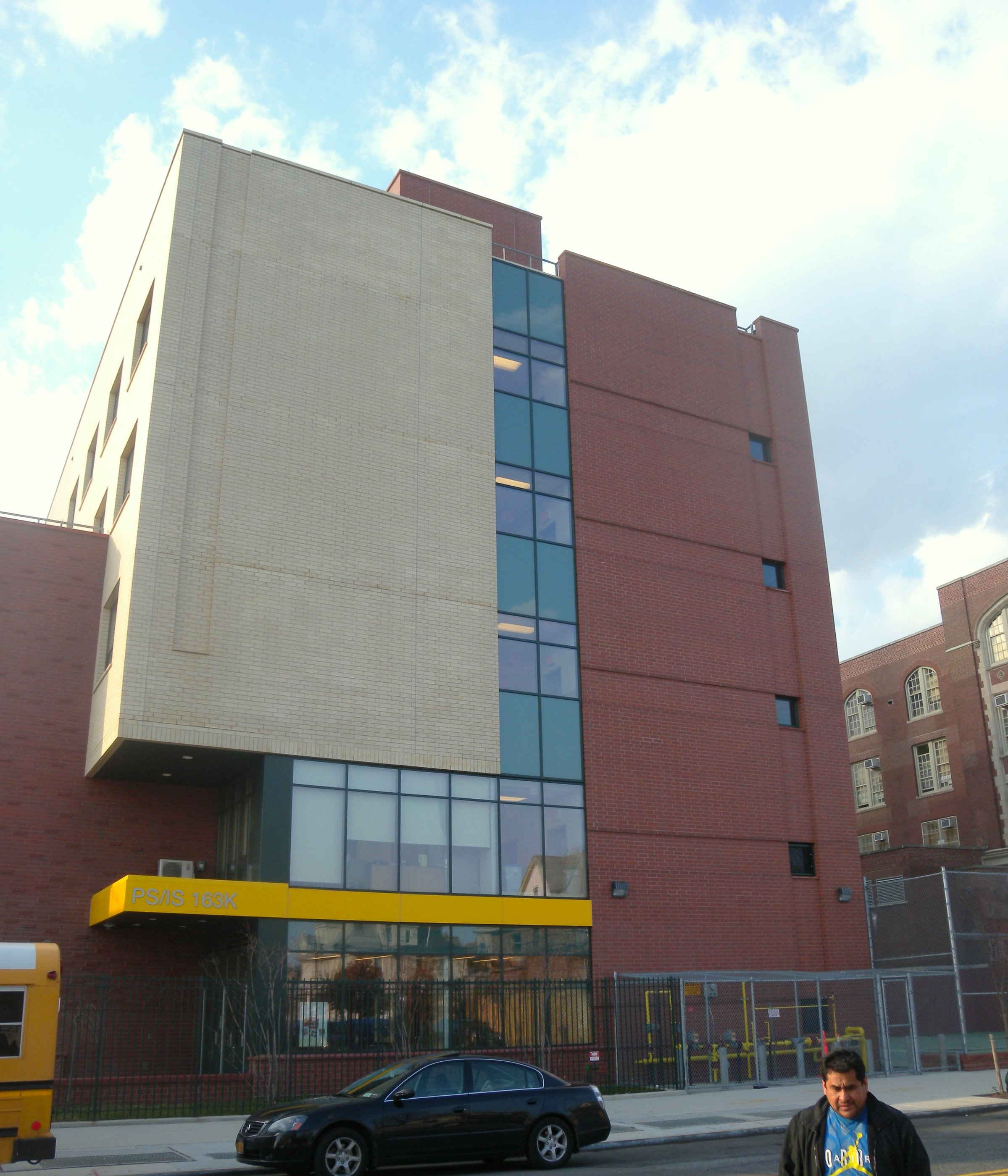 Looking west across 17th Avenue from Rutherford Place at PS 163 The Bath Beach School on a mostly sunny afternoon. EXIF location is mistaken due to photographer's error.